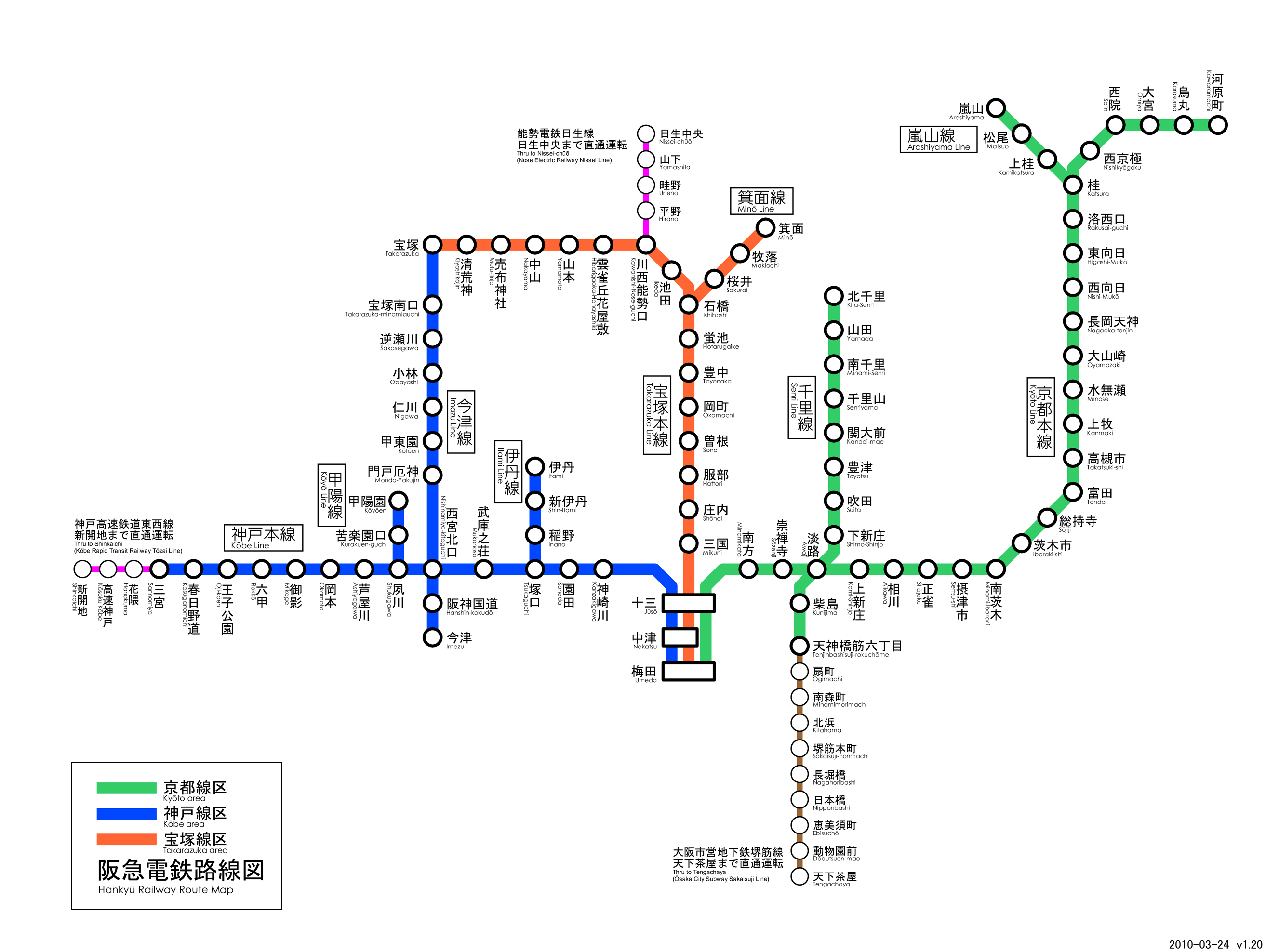 Map of Hankyu Railway network in Japan